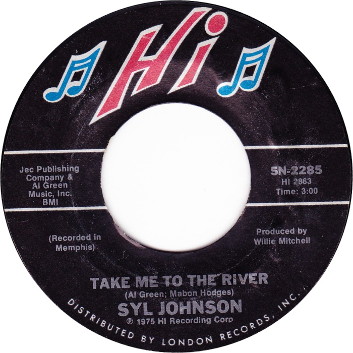 "Take Me to the River" by Syl Johnson; one of A-side labels of the US vinyl single